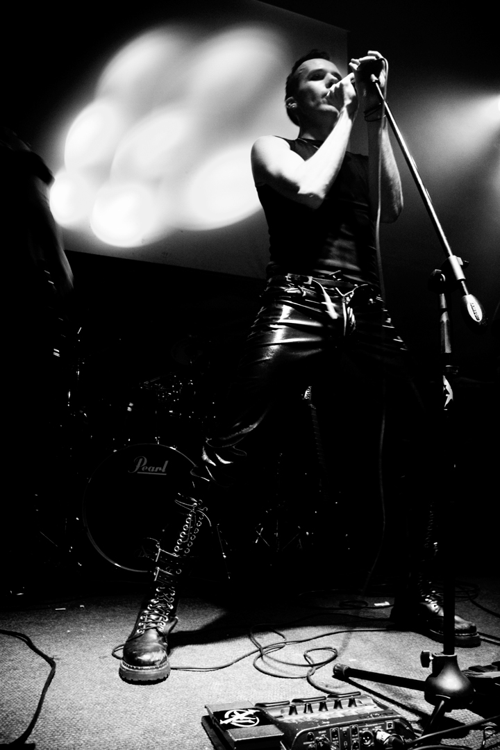 Ashton Nyte fronting The Awakening on stage at Zeppelins, Johannesburg, South Africa